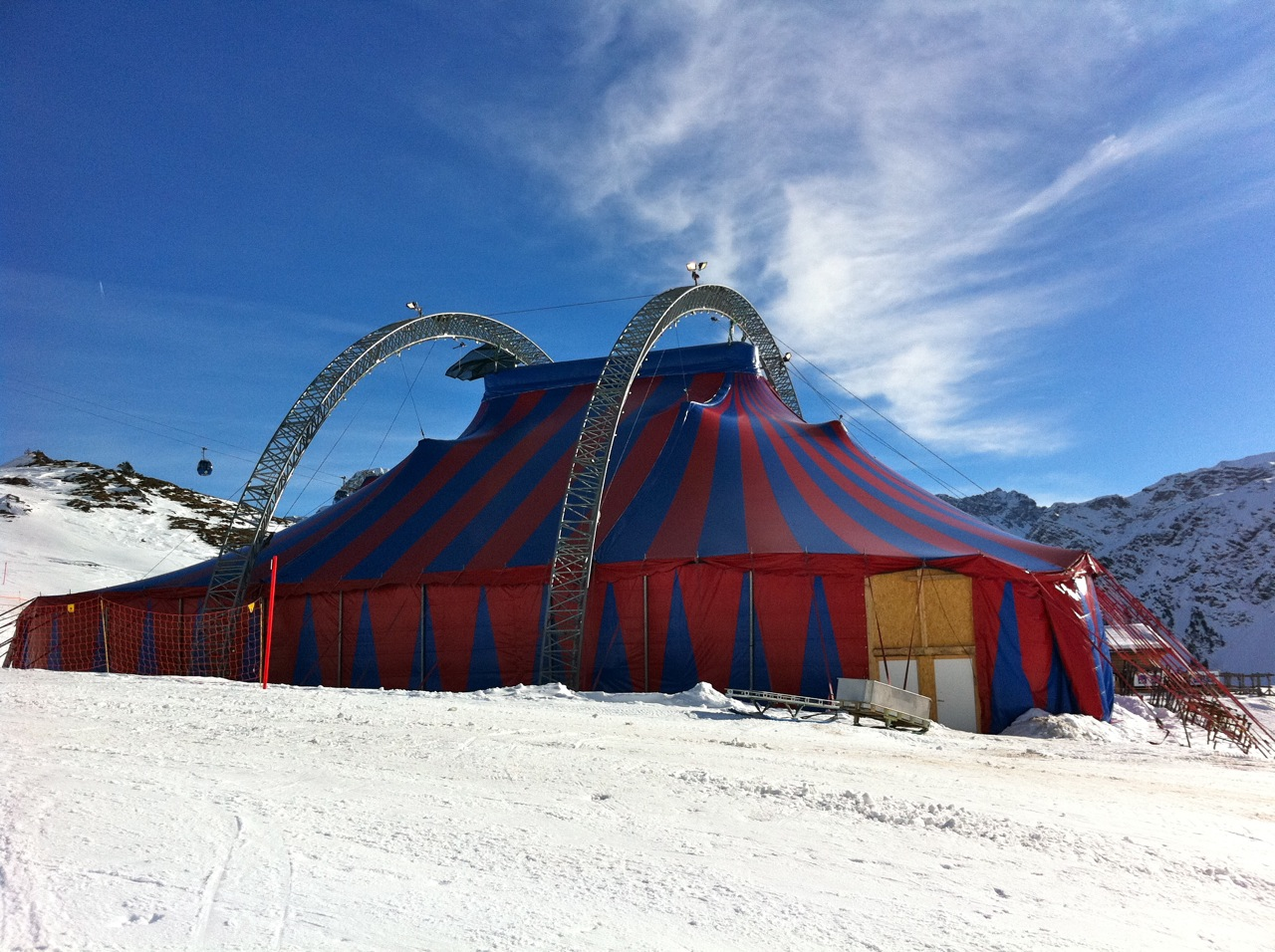 big top of Arosa Humorfestival